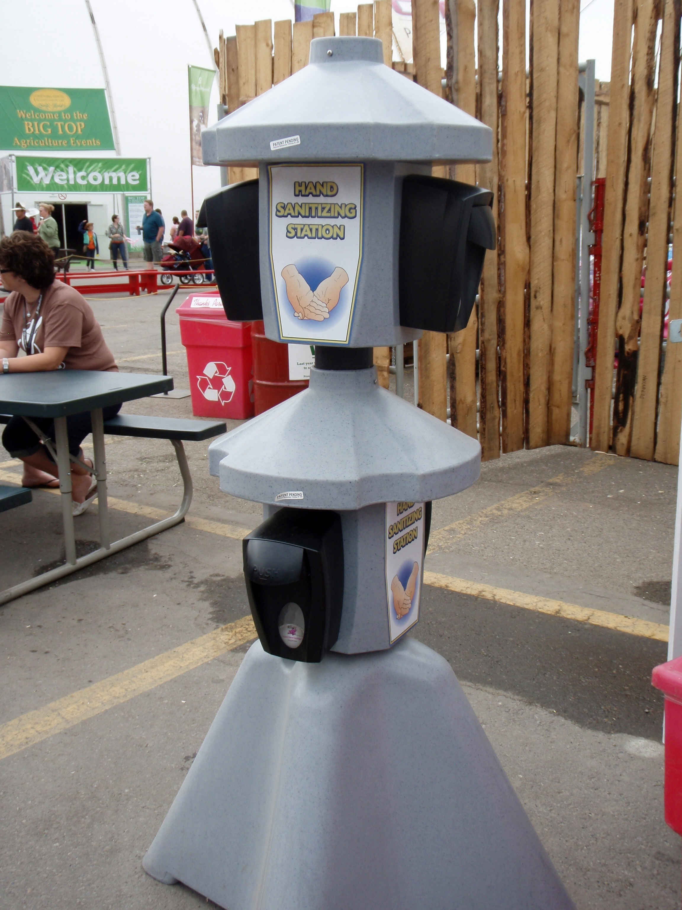 A public hand sanitizer or hand antiseptic dispenser designed for simultaneous use by several persons. Photo taken at Stampede Park in Calgary, Alberta, Canada.